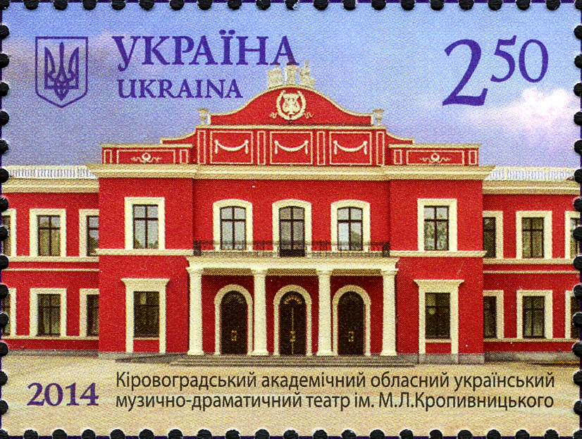 Stamps of Ukraine, 2014